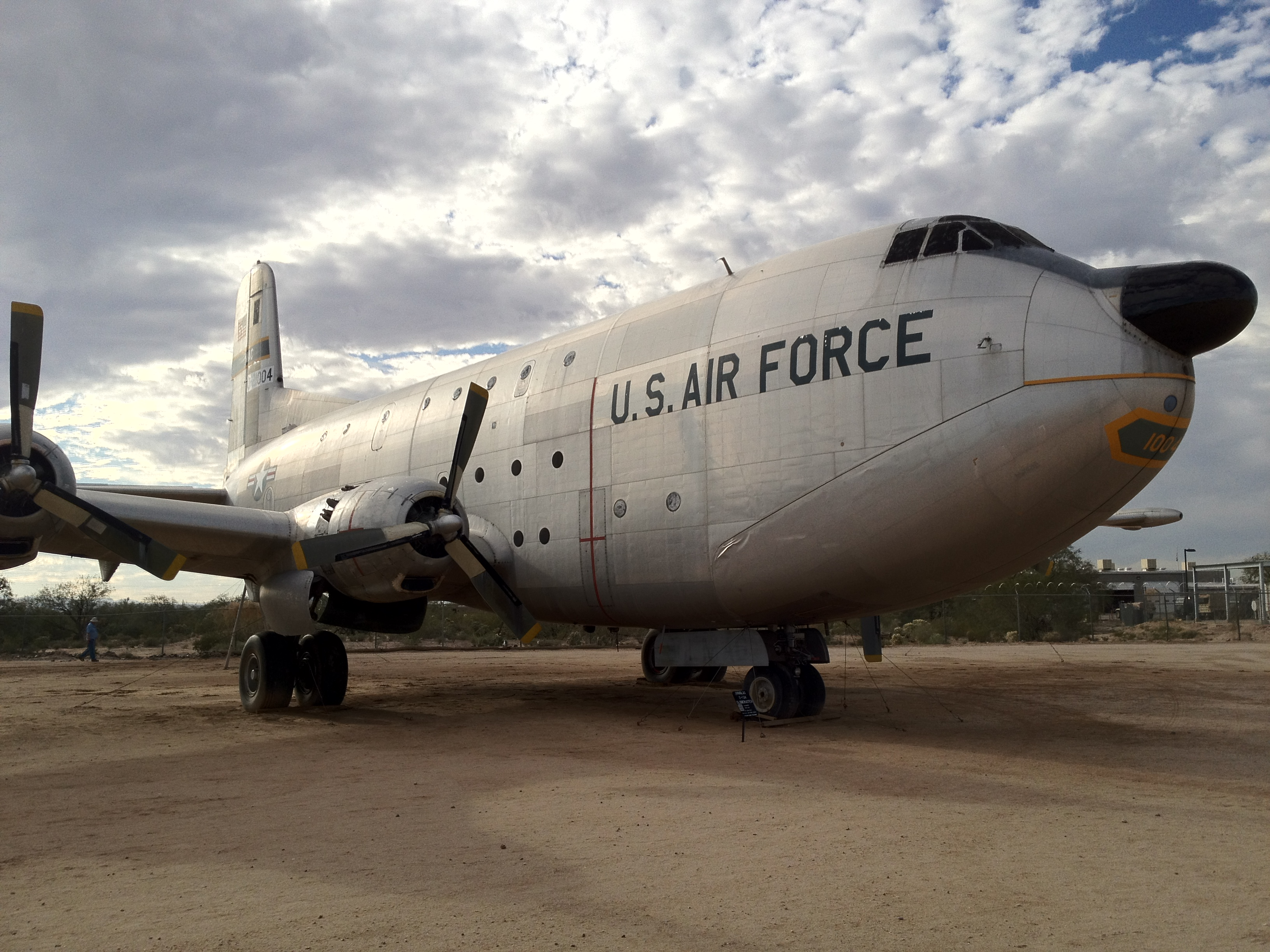 A C-124 Globemaster at the Pima Air Museum